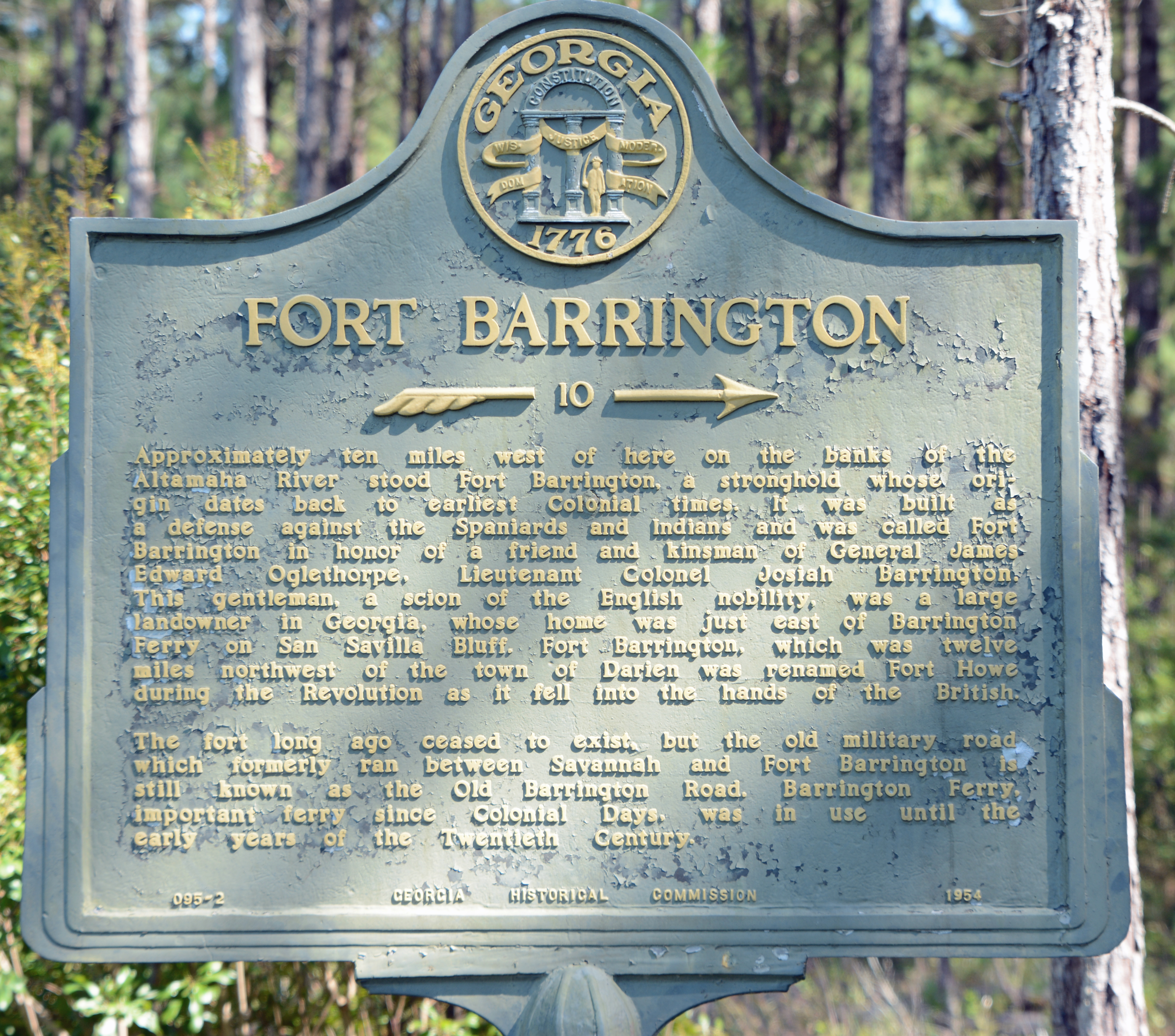 Historical marker for Fort Barrington, 10 miles from the site of the fort. The marker is on Georgia highway 57, at the McIntosh/Long county line, 31.57701939N, 81.566822369W